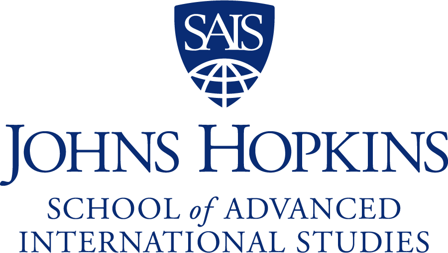 Johns Hopkins SAIS logo